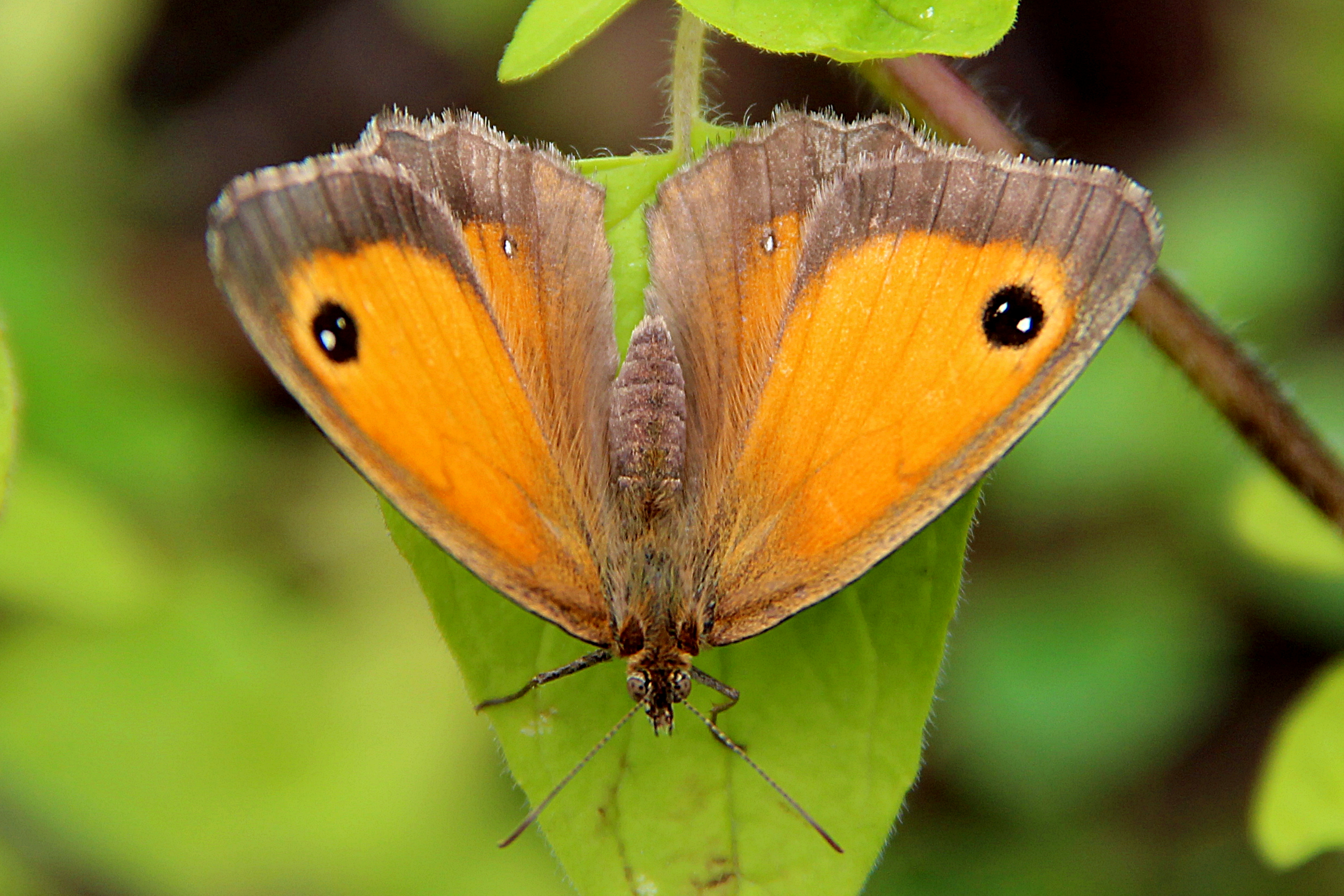 Gatekeeper (butterfly), Pyronia tithonus - Havré (Belgium).